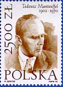 Stamp issued by the Poczta Polska in 1992, on the 90th anniversary of Tadeusz Manteuffel birth. Source link